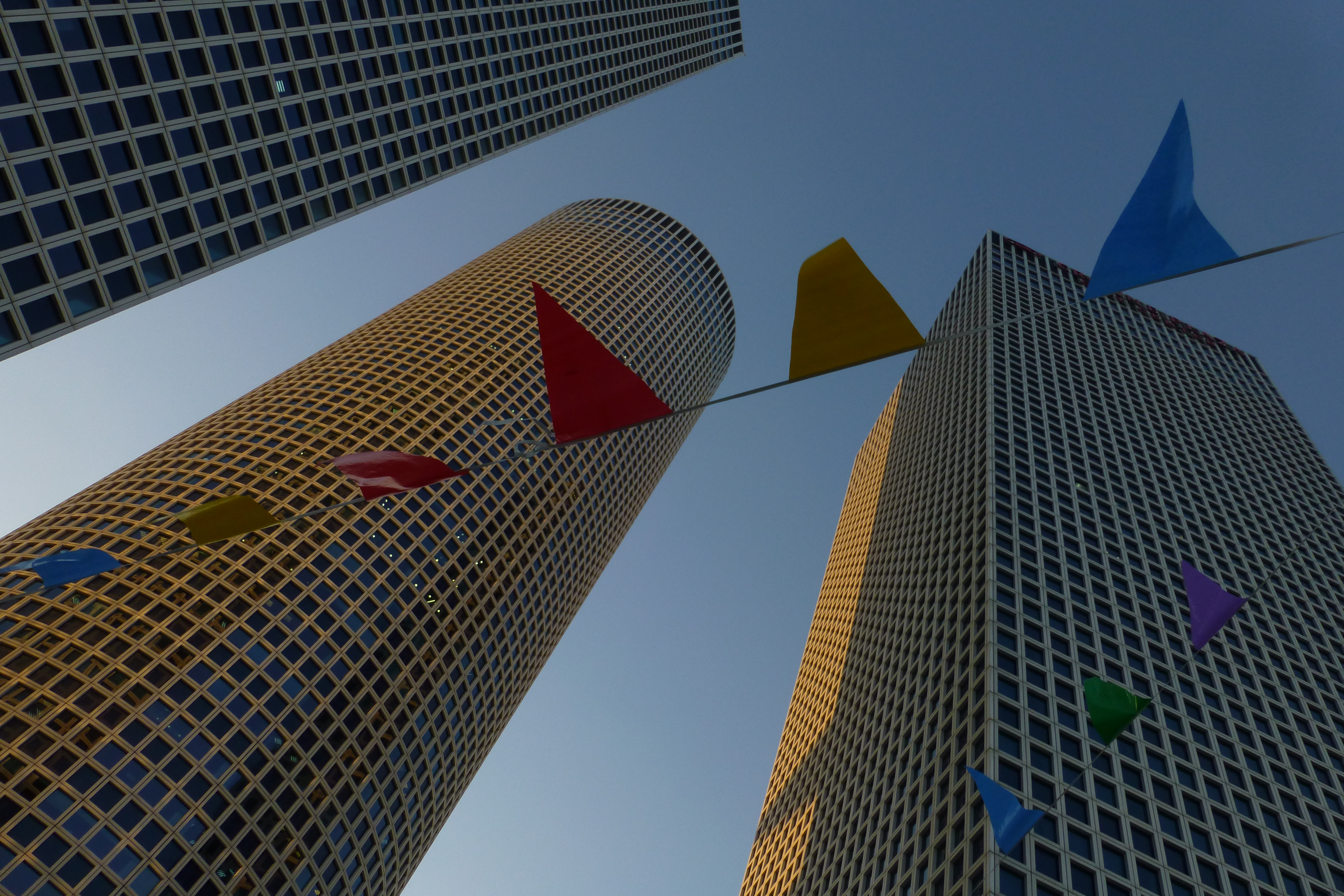 Azriely Towers